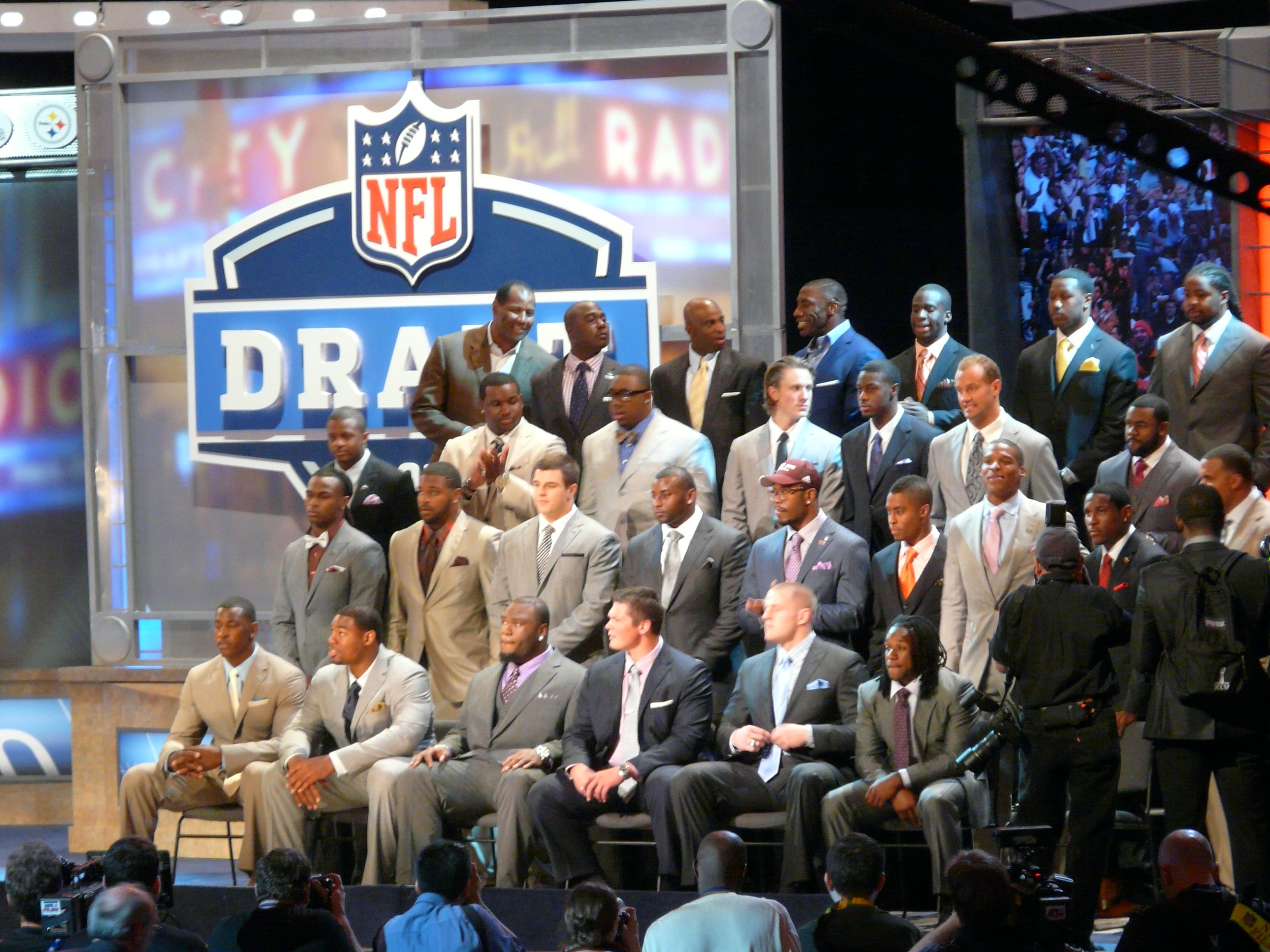 Hall of Famers in the top row include Richard Dent, Marshall Faulk, Deion Sanders and Shannon Sharpe.